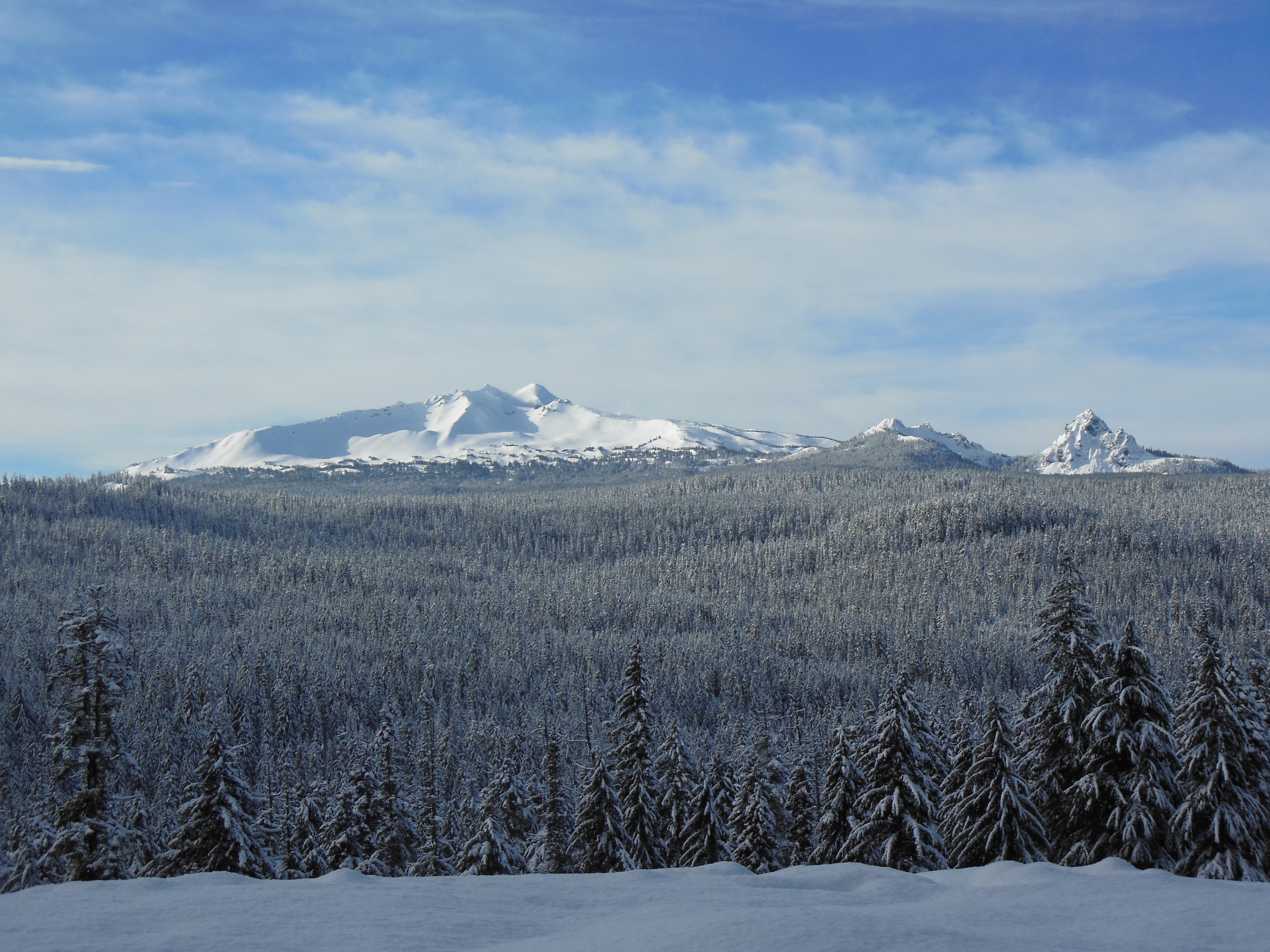 Diamond Peak in the Cascade Range in Oregon, seen from the northeast, with Mount Yoran at far right